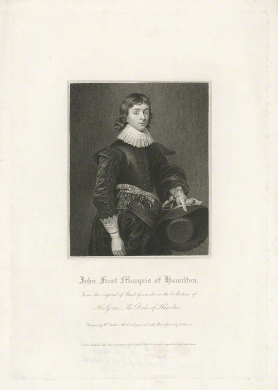 Stipple engraving of James Hamilton, 1st Duke of Hamilton by Edward Scriven, published by Lackington, Hughes, Harding, Mavor & Jones, published by Longman, Hurst, Rees, Orme & Brown, after William Hilton, after Daniel Mytens